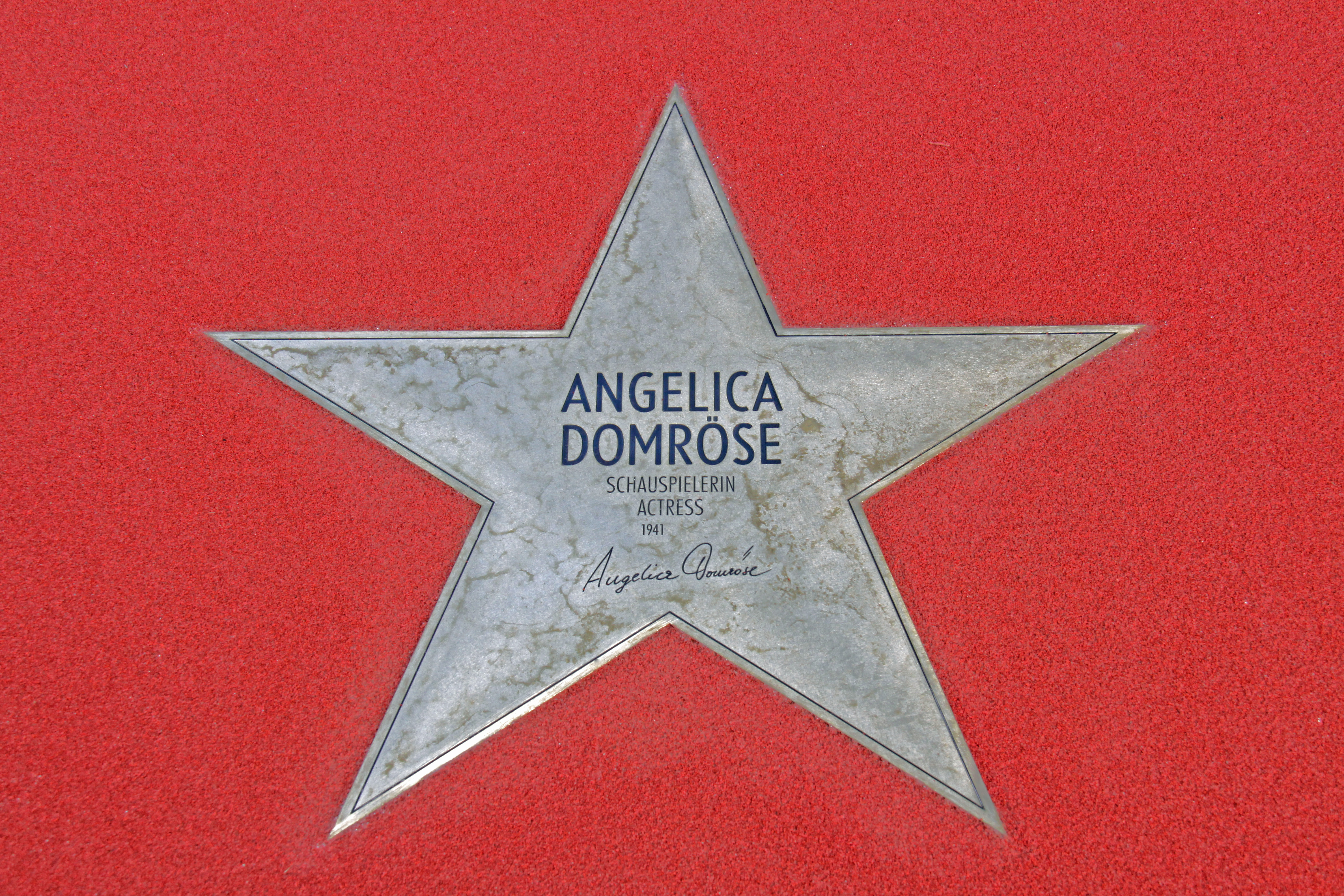 Star of Angelica Domröse at the "Boulevard der Sterne" in Berlin